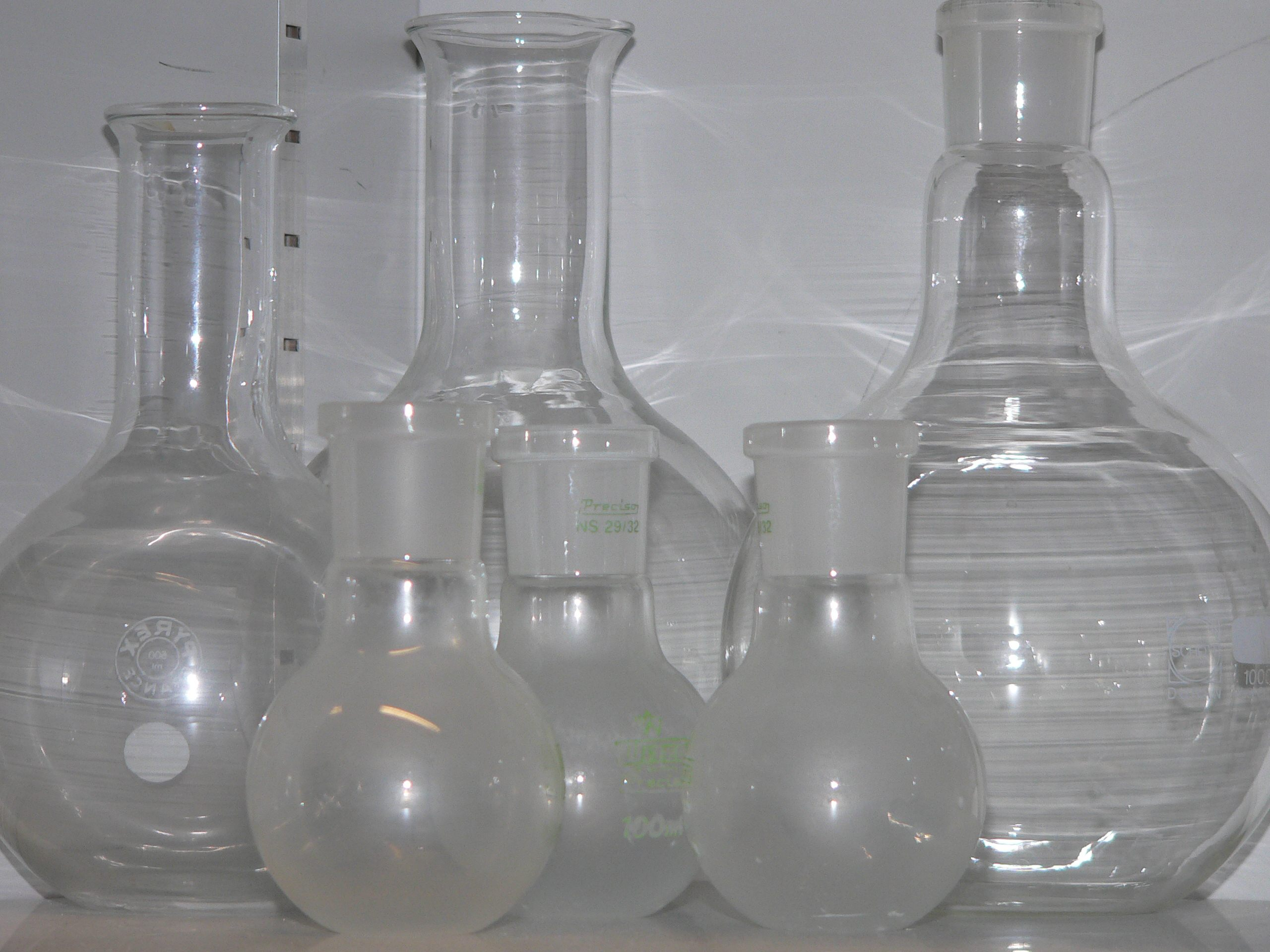 laboratory glassware, flasks